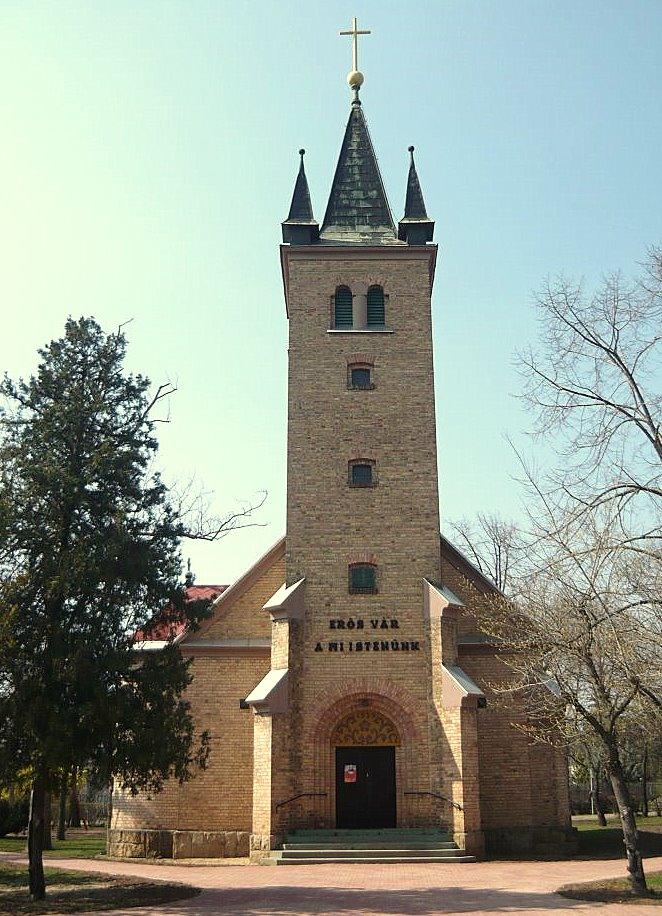 Lutheran church of Rákoshegy, a part of the 17th district of Budapest. Architect: Gyula Sándy (1938–39)